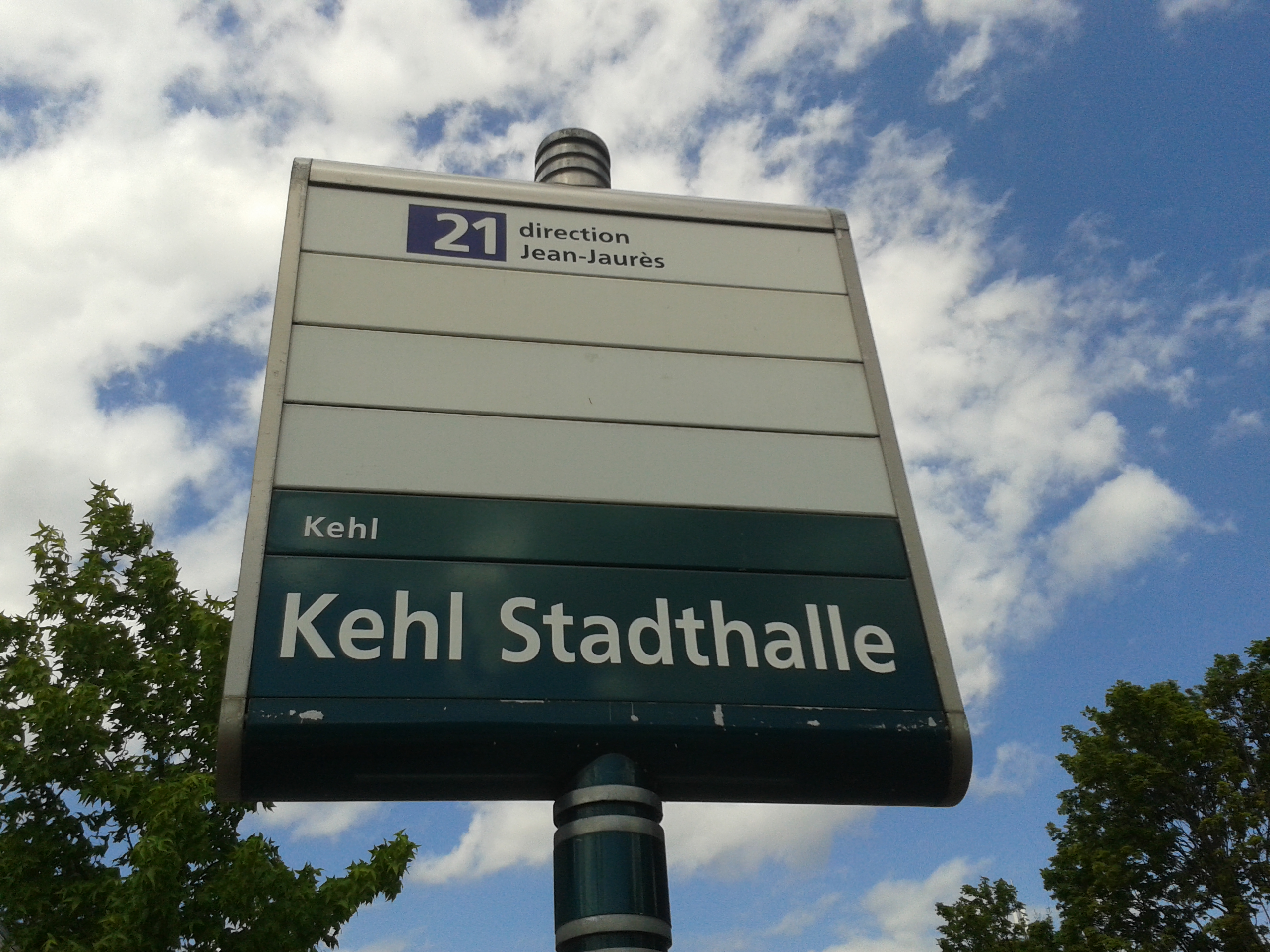 The French bus stop of the Strasbourg public transport operator in the nearby German city of Kehl.